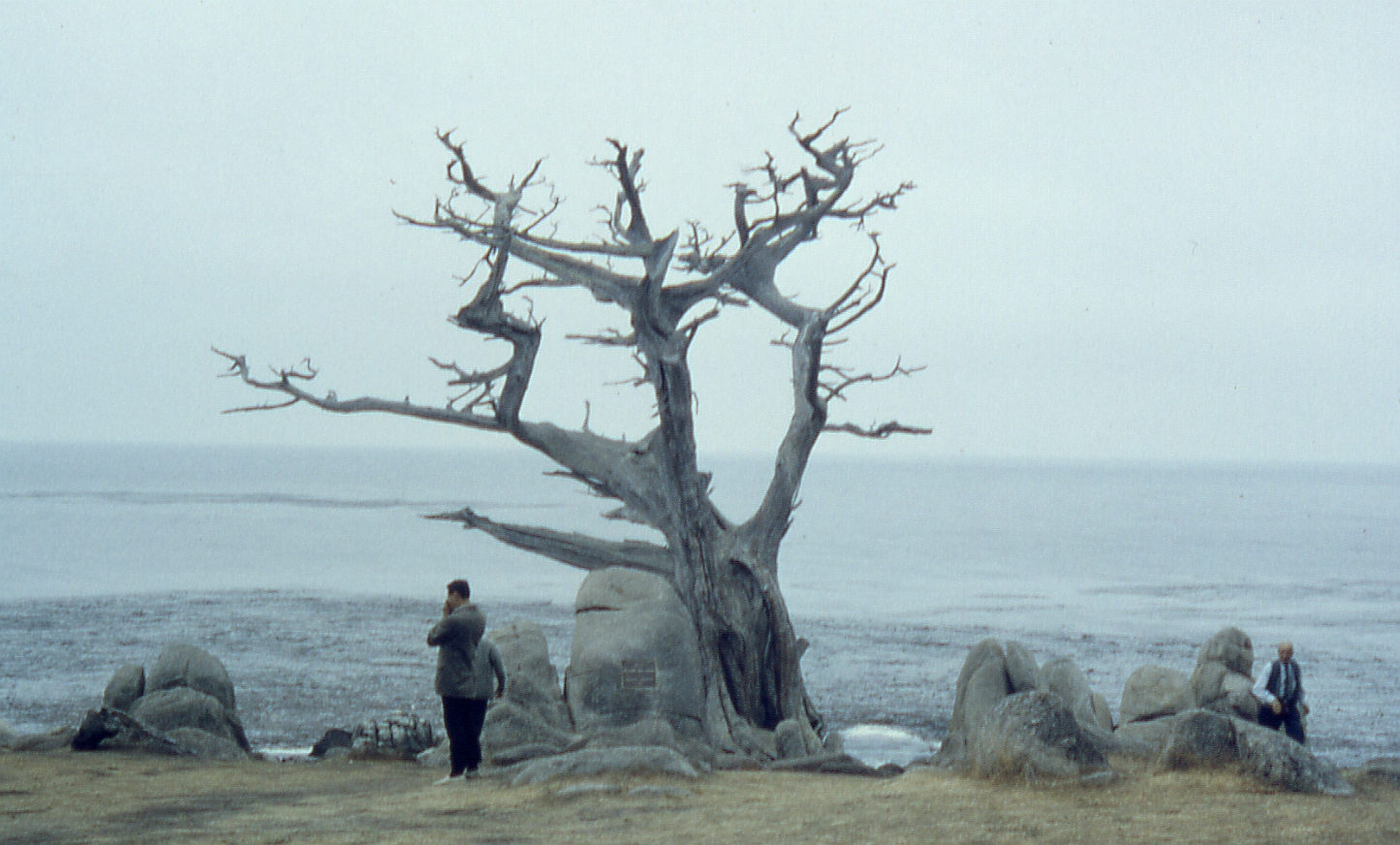 The famous Witch Tree at Pescadero Point, Pebble Beach. It was destroyed in a storm, on January 14, 1964.